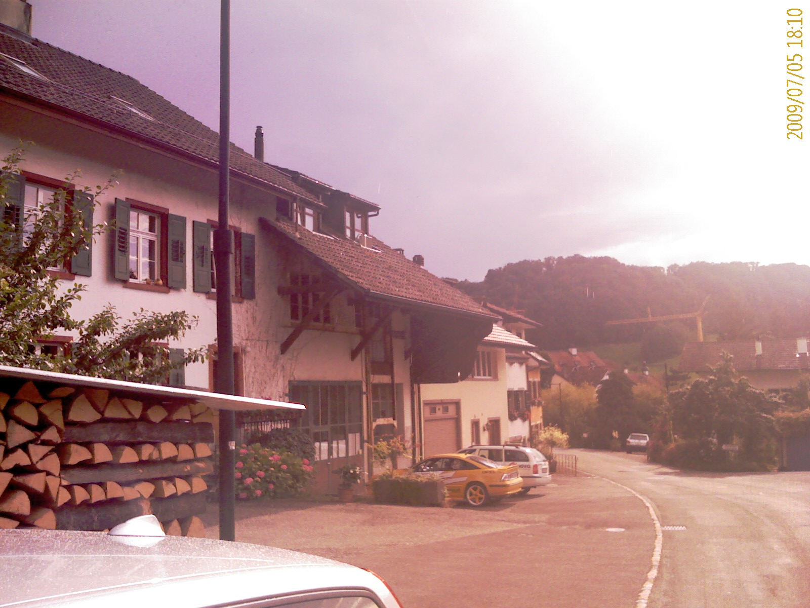 Buus, canton of Basel-Country, SwitzerlandEsperanto: Buus, Kantono Zuriko, Svislando